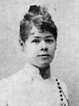 Laura Mohr, latvian writer (1854-1928). Pseudonym "Laura Marholm". Married to the swedish author Ola Hansson 1889-1925. Picture cropped by the uploader.